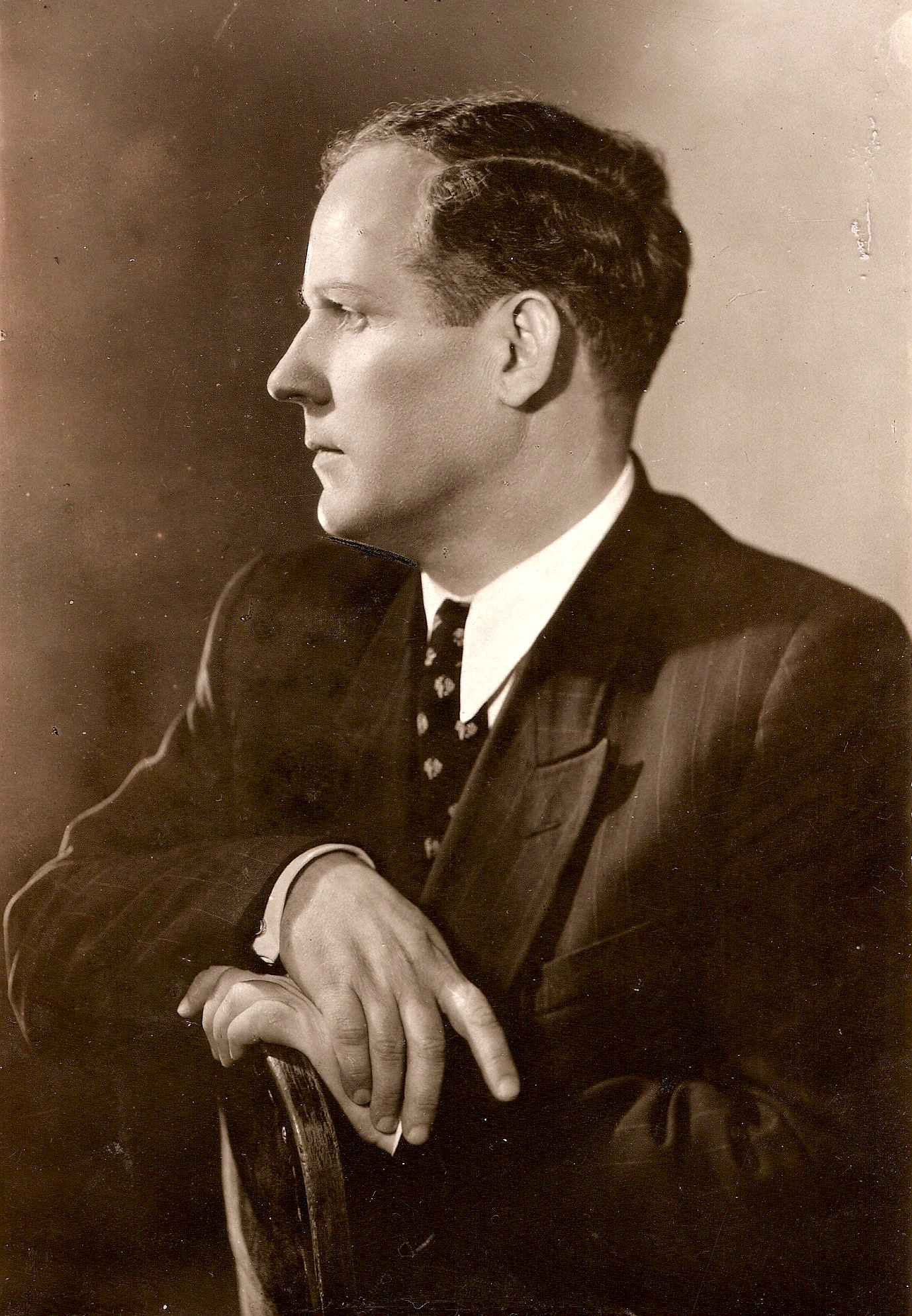 Aleksandr Prokofyevich Markevich